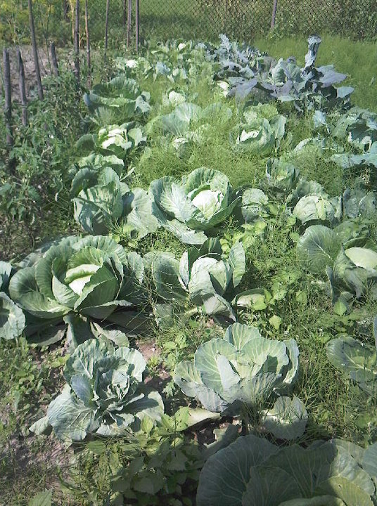 Cabbages (Brassica oleracea var. capitata f. alba) in Lónyaytelep, Tranyalvania.